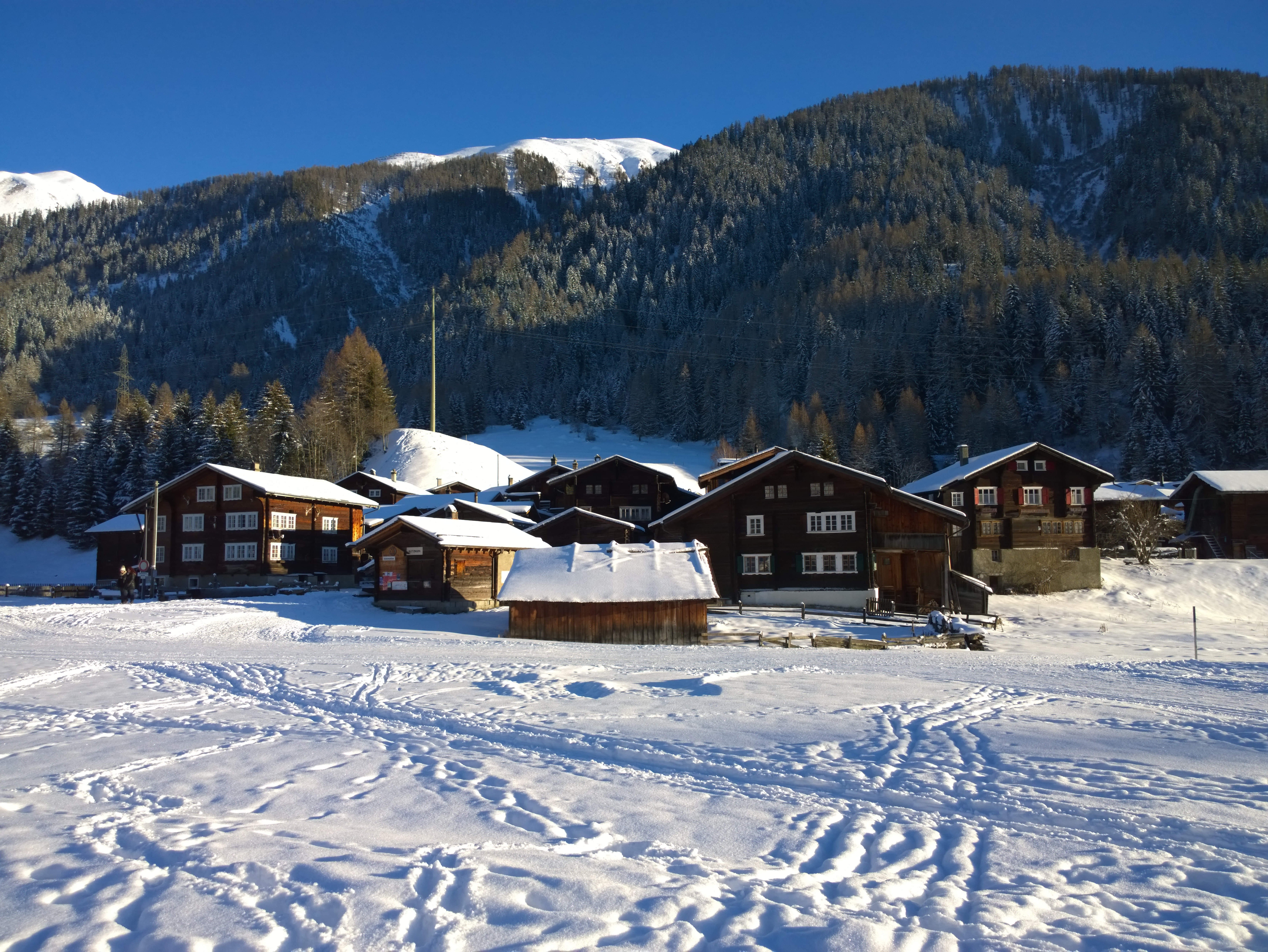 Blitzingen in winter